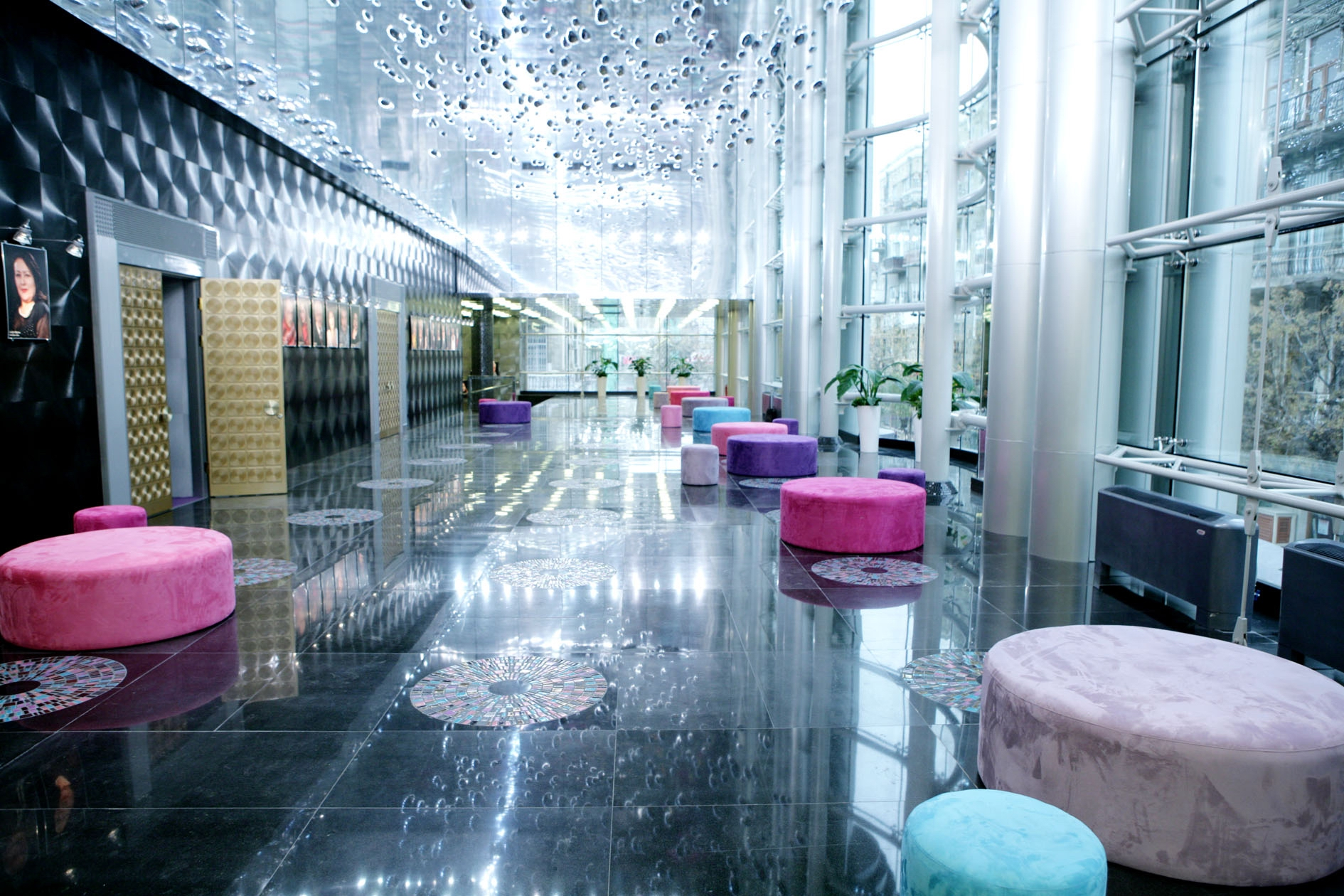 Azerbaijan State Theatre of Young Spectators